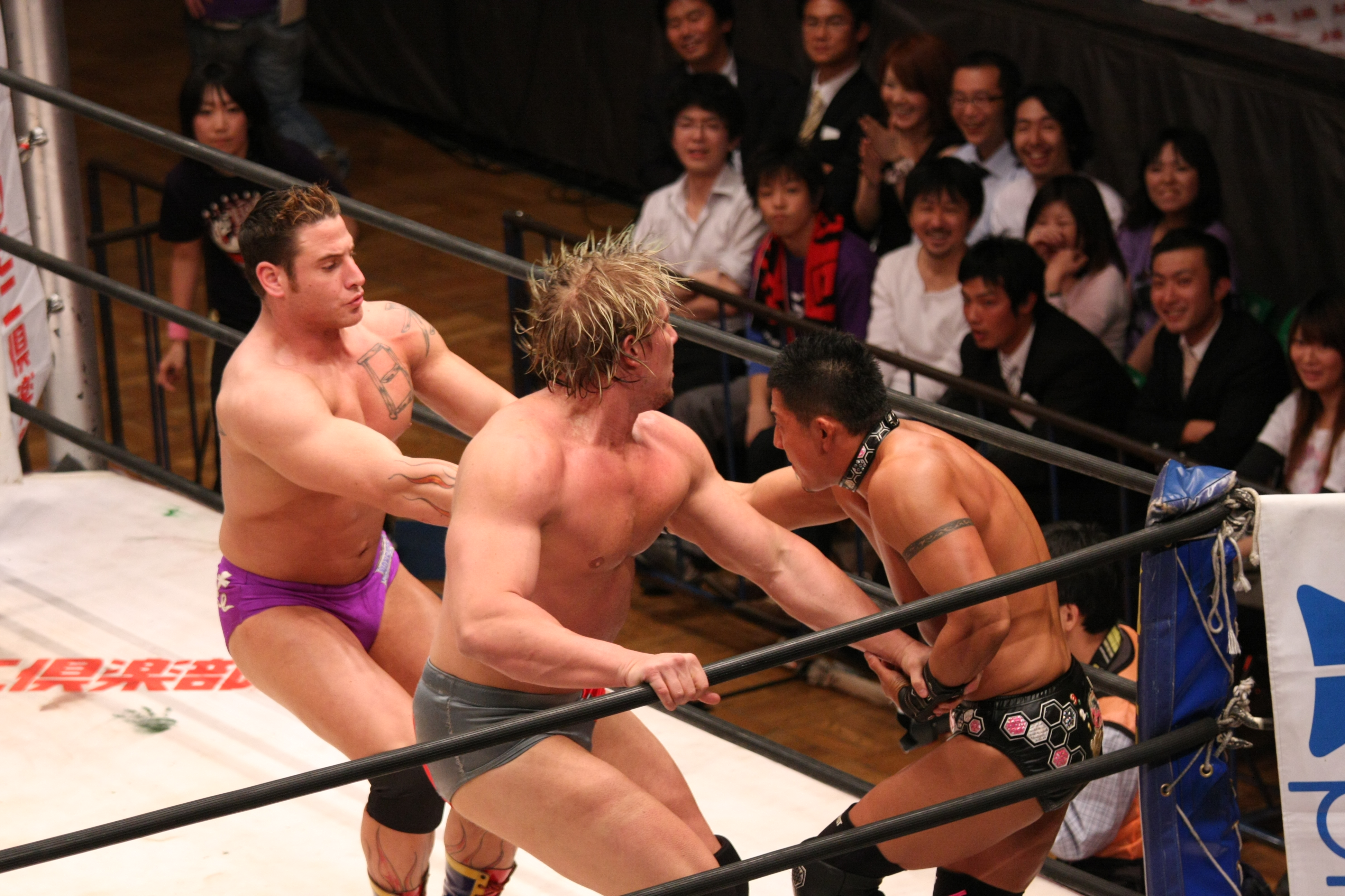 Professional wrestler Rene Bonparte (real name Rene Goguen) and Lance Cade Irish whip Magnum TOKYO across the ring at a HUSTLE show in 2009.